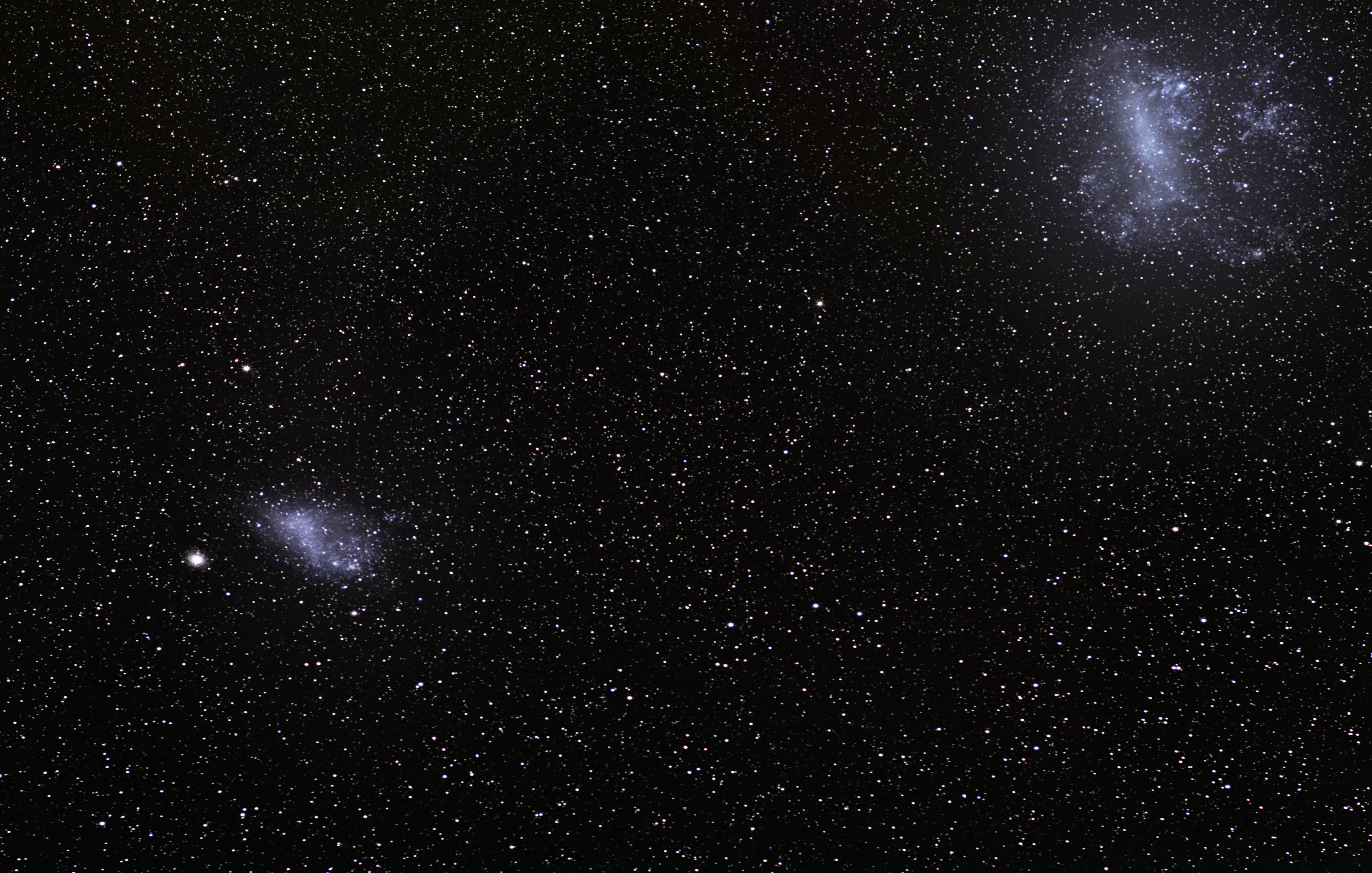 Seen from the southern skies, the Large and Small Magellanic Clouds (the LMC and SMC, respectively) are bright patches in the sky. These two irregular dwarf galaxies, together with our Milky Way Galaxy, belong to the so-called Local Group of galaxies. Astronomers once thought that the two Magellanic Clouds orbited the Milky Way, but recent research suggests this is not the case, and that they are in fact on their first pass by the Milky Way. The LMC, lying at a distance of 160 000 light-years, and its neighbour the SMC, some 200 000 light-years away, are among the largest distant objects we can observe with the unaided eye. Both galaxies have notable bar features across their central discs, although the very strong tidal forces exerted by the Milky Way have distorted the galaxies considerably. The mutual gravitational pull of the three interacting galaxies has drawn out long streams of neutral hydrogen that interlink the three galaxies.